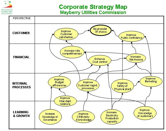 Example of a balanced scorecard strategy map for a public-sector organization